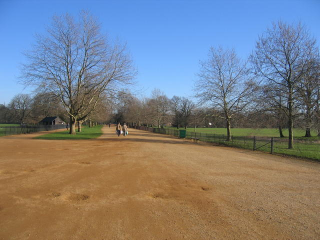 Christ Church meadow Looking along the Broad Walk in the meadows from in front of Christ Church College.